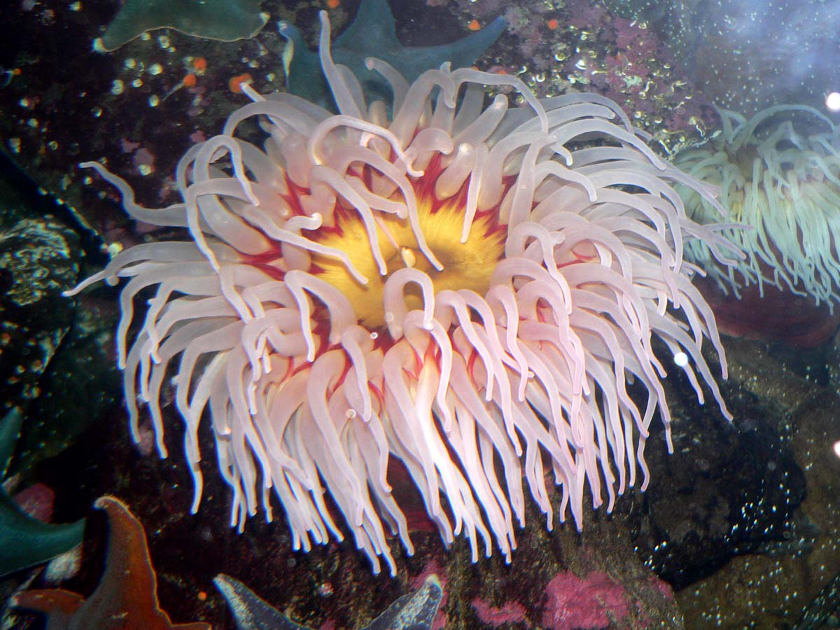 Photo of Urticina piscivora (fish-eating anemone) at the Vancouver Aquarium